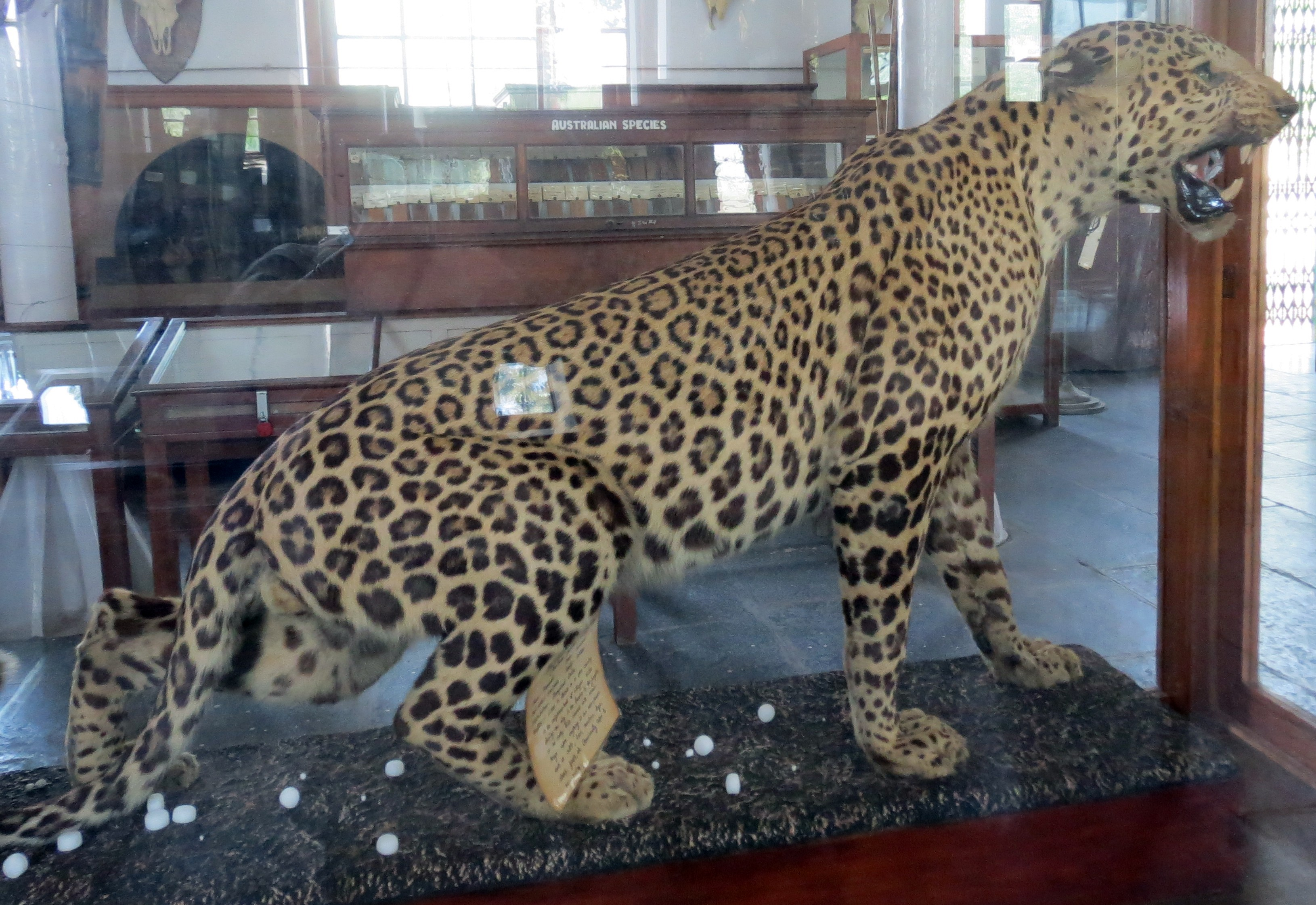 A stuffed leopard at Gass Forest Museum, Coimbatore, Tamil Nadu, India.